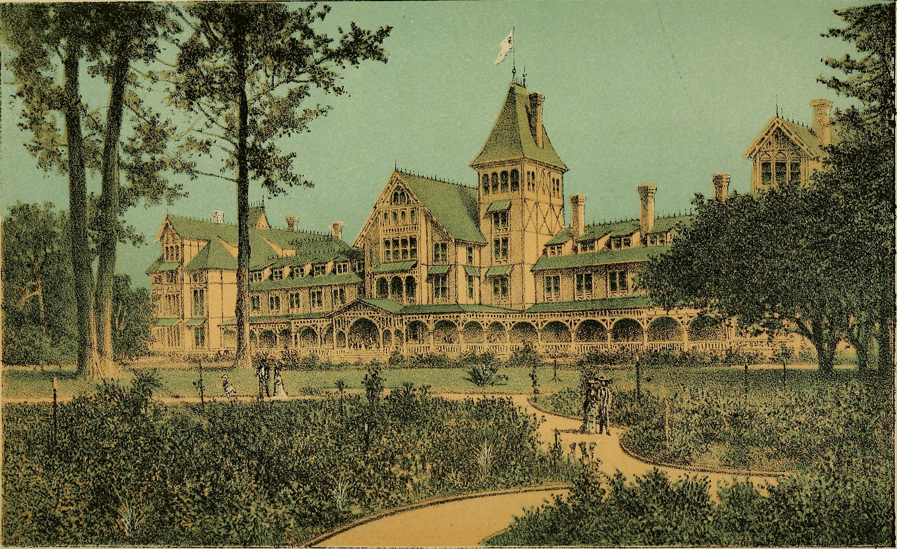 Hotel del Monte, Monterey, California Title: Beauties of California Year: 1883 (1880s) Authors: Griswold, Norman W Subjects: Publisher: San Francisco, H. S. Crocker & co. Text Appearing Before Image: unct to the Hotel del Monte, and through which have been constructedTWENTY-FIVE MILES of splendid macadamized roadway, skirting the Ocean Shoreand passing through extensive forests of spruce, pine and cypress trees. BEAUTIFUL DRIVES to Cypress Point, Carmel Mission, Point Lobos, PacificGrove Retreat, and to other places of general interest. Sea Bathing. THE BATHING FACILITIES at this place are unsurpassed, having a MAG-NIFICENT BEACH of pure white sand for surf bathing. Warm Tub and Swimming Baths., THE BATH HOUSE contains SPACIOUS SWIMMING TANKS (150 x 50 feet)for warm salt water plunge and swimming baths, with ELEGANT ROOMS connectingfor Individual Baths, with douche and shower facilities. Terms for Board: By the Day, $3.00. By the Week, $17.50. Parlors, from $1.00 to $2.50 per day extra.Children, $10.50 per Week, when accommodated in Childrens Dining-room; other-wise full rates will be charged. Special Accommodations for Bridal Parties.GEO. SCHONEWALD, Manager, MoNTBRKT, California Text Appearing After Image: '